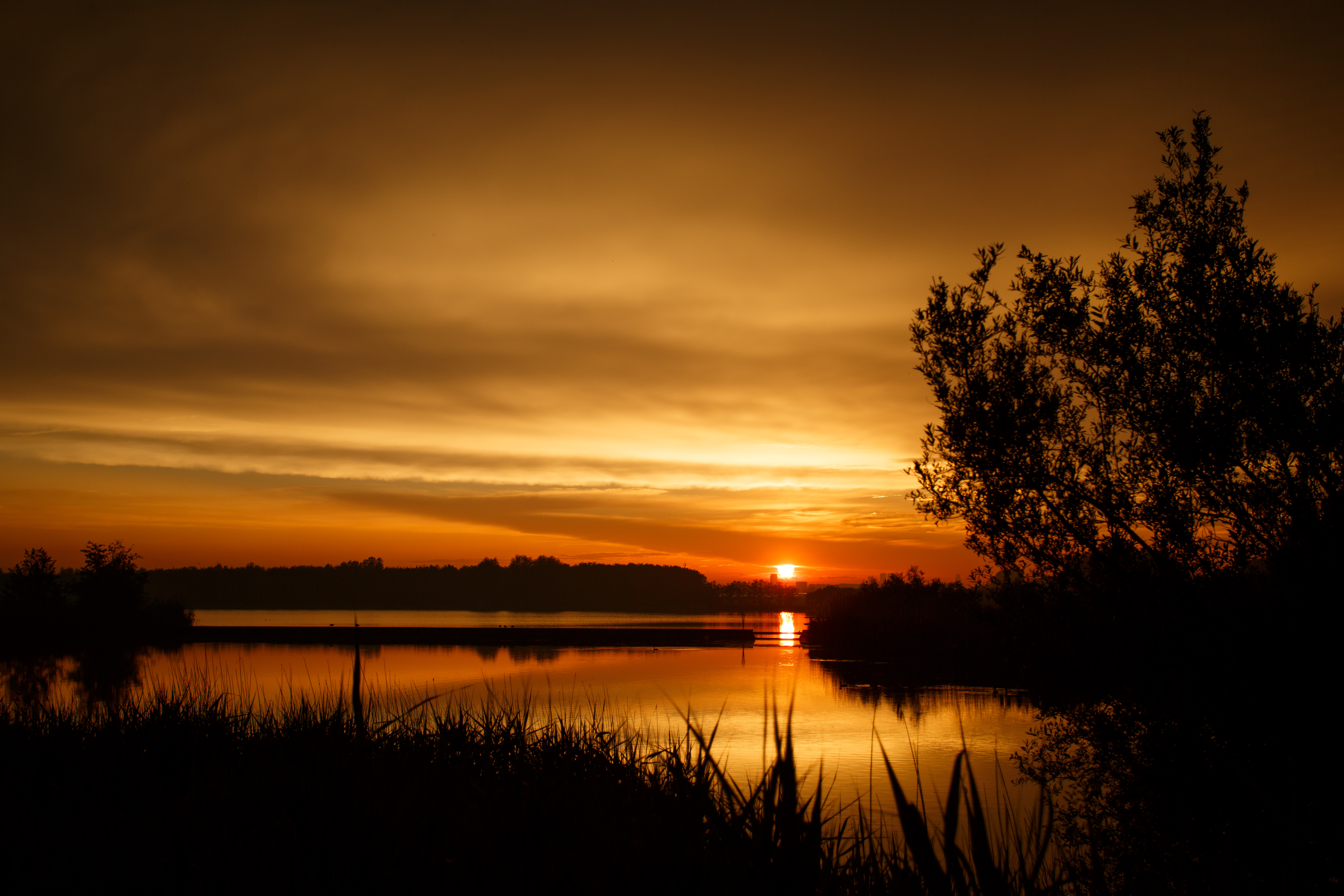 Every day is pure magic.. Enjoy!!